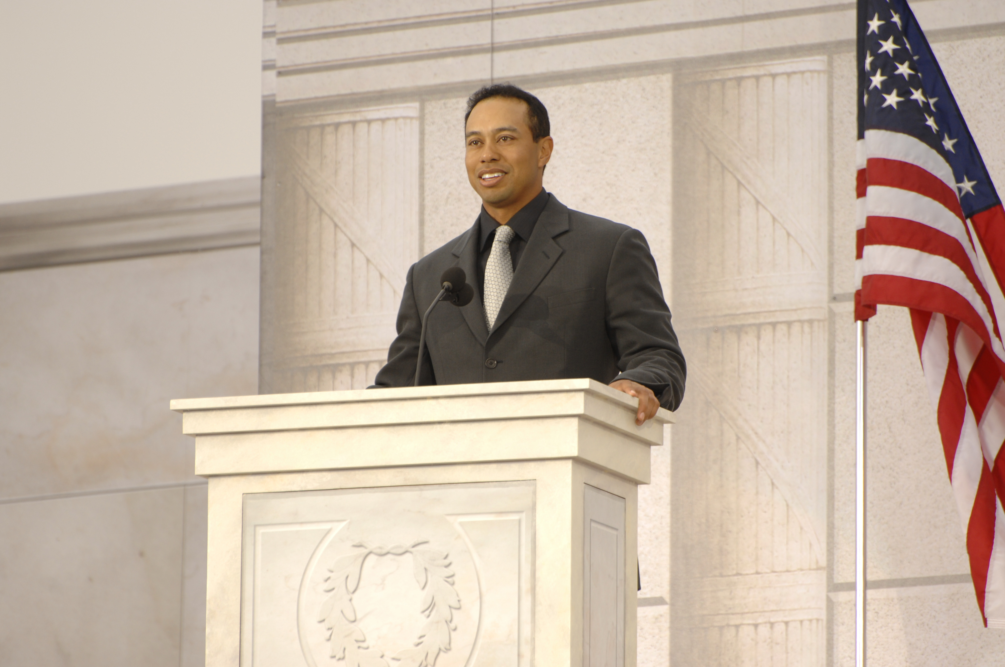 Tiger Woods speaks at the Lincoln Memorial on the National Mall in Washington, D.C., Jan. 18, 2009, during the inaugural opening ceremonies. More than 5,000 men and women in uniform are providing military ceremonial support to the presidential inauguration, a tradition dating back to George Washington's 1789 inauguration. VIRIN: 090118-N-4794M-1836